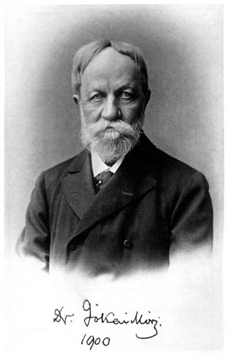 Mór Jókai - Project Gutenberg etext 17597